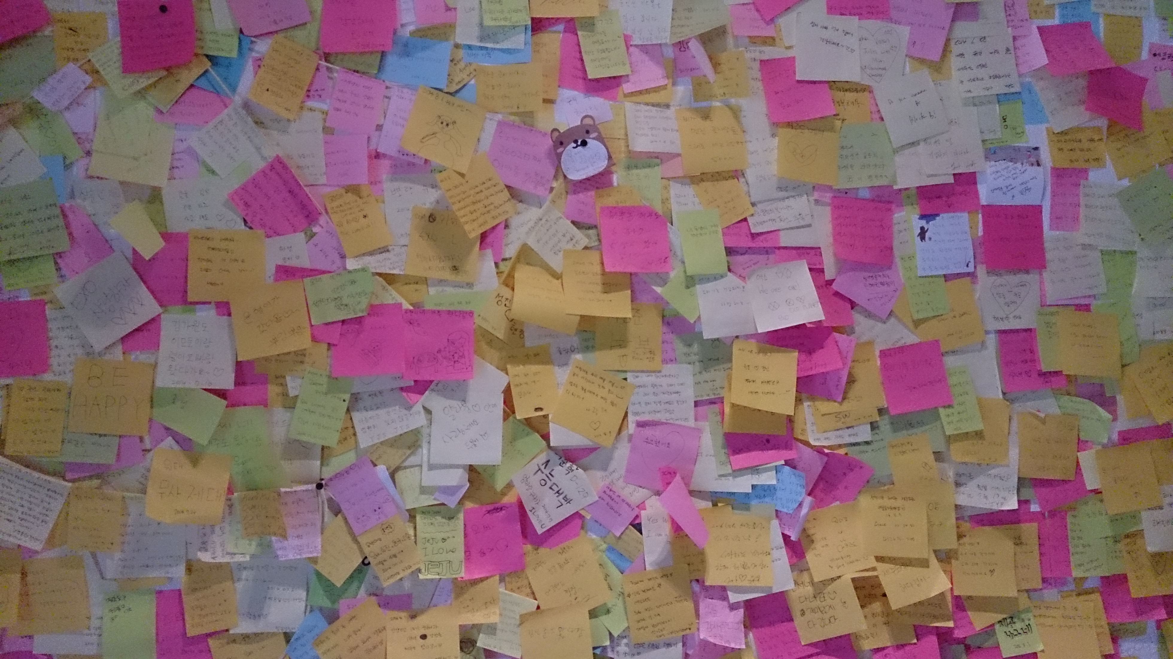 Sticky notes on the wall